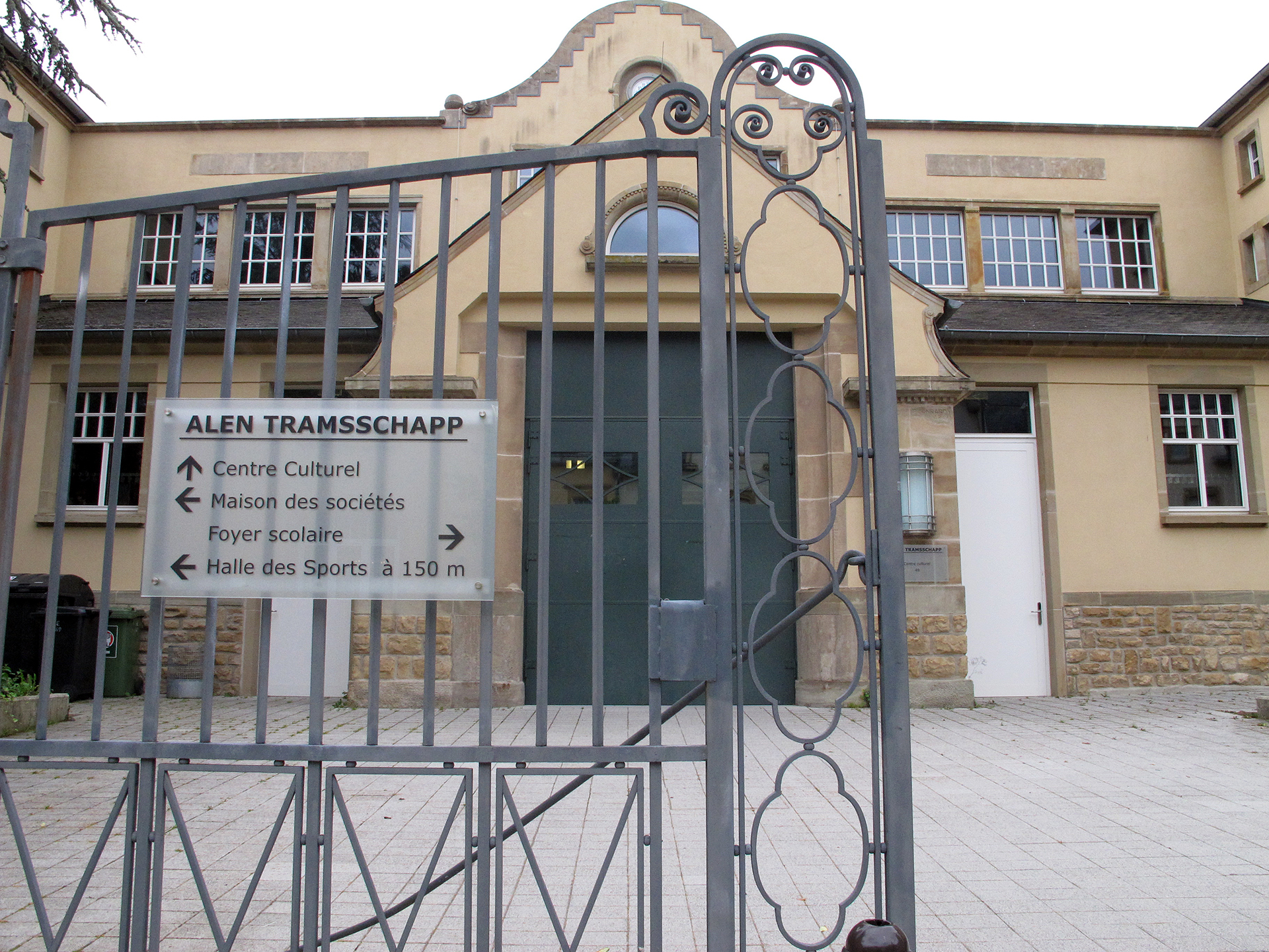 Entrance of cultural centre "Alen Tramsschapp" in Limpertsberg, Luxembourg